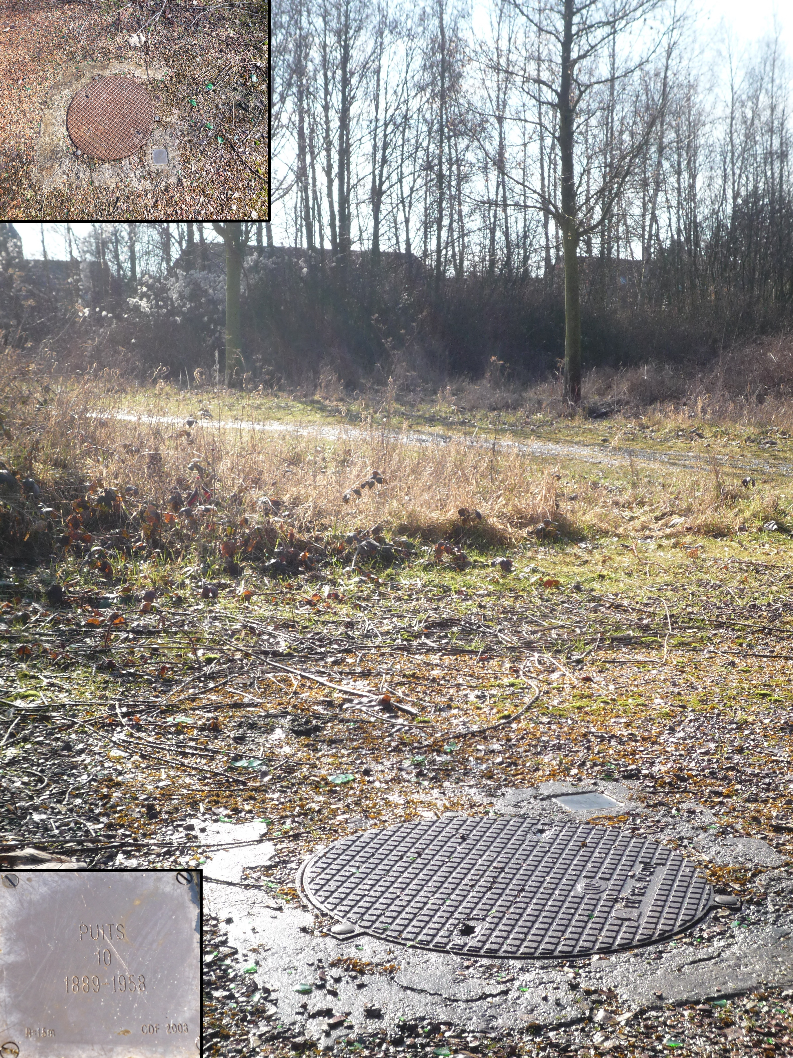 Pit n° 10, Compagnie des mines de Lens, Vendin-le-Vieil, Pas-de-Calais, Nord-Pas-de-Calais, France.